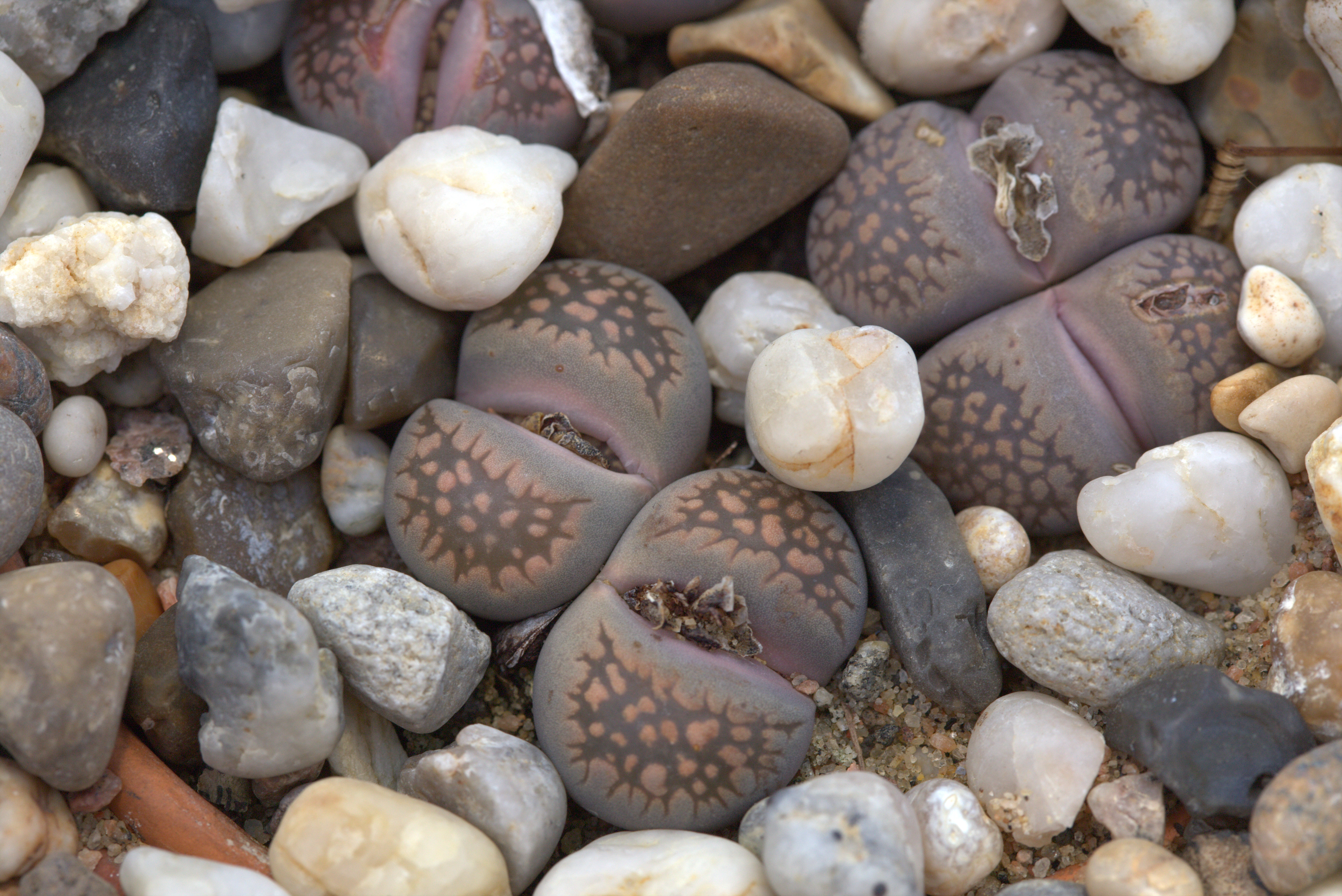 Lithops comptonii in Gotehenburg Botanical Garden in 2015. Plant id: 2012-1454 p G -- Haage Ka.